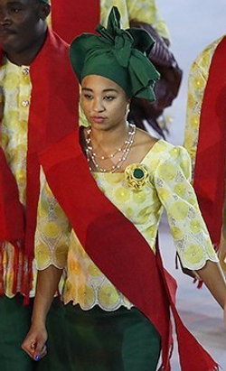 Benin at the 2016 Summer Olympics opening ceremony